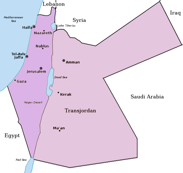 Map of the British Mandate of Palestine and Transjordan. Note: Wasserstein, Bernard (2004). Israel and Palestine: Why They Fight and Can They Stop?, pp. 105–106."Palestine, therefore, was not partitioned in 1921–1922. Transjordan was not excised but, on the contrary, added to the mandatory area. Zionism was barred from seeking to expand there – but the Balfour Declaration had never previously applied to the area east of the Jordan. Why is this important? Because the myth of Palestine's 'first partition' has become part of the concept of 'Greater Israel' and of the ideology of Jabotinsky's Revisionist movement."